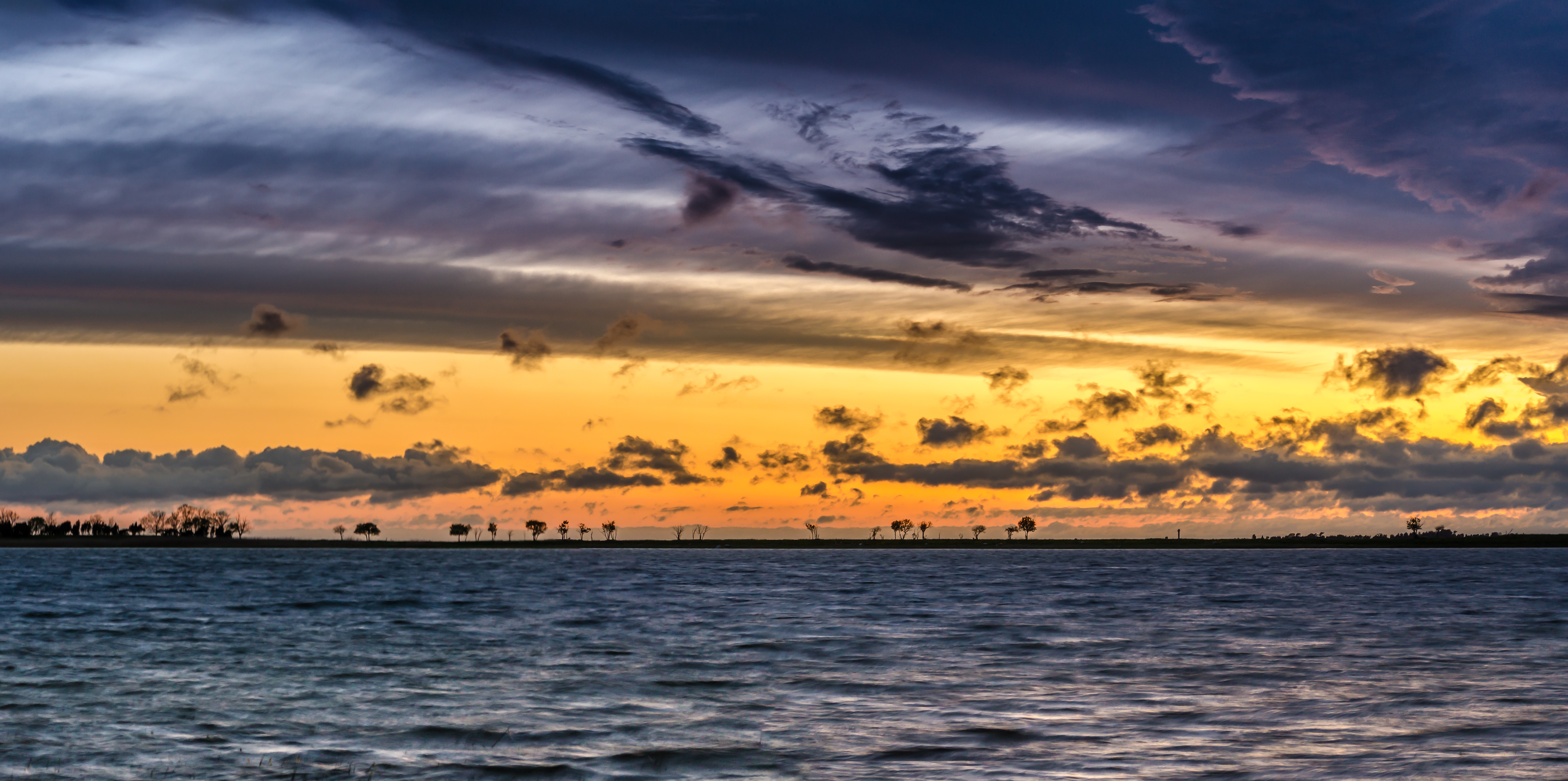 Sunset at Pihelgalaiu